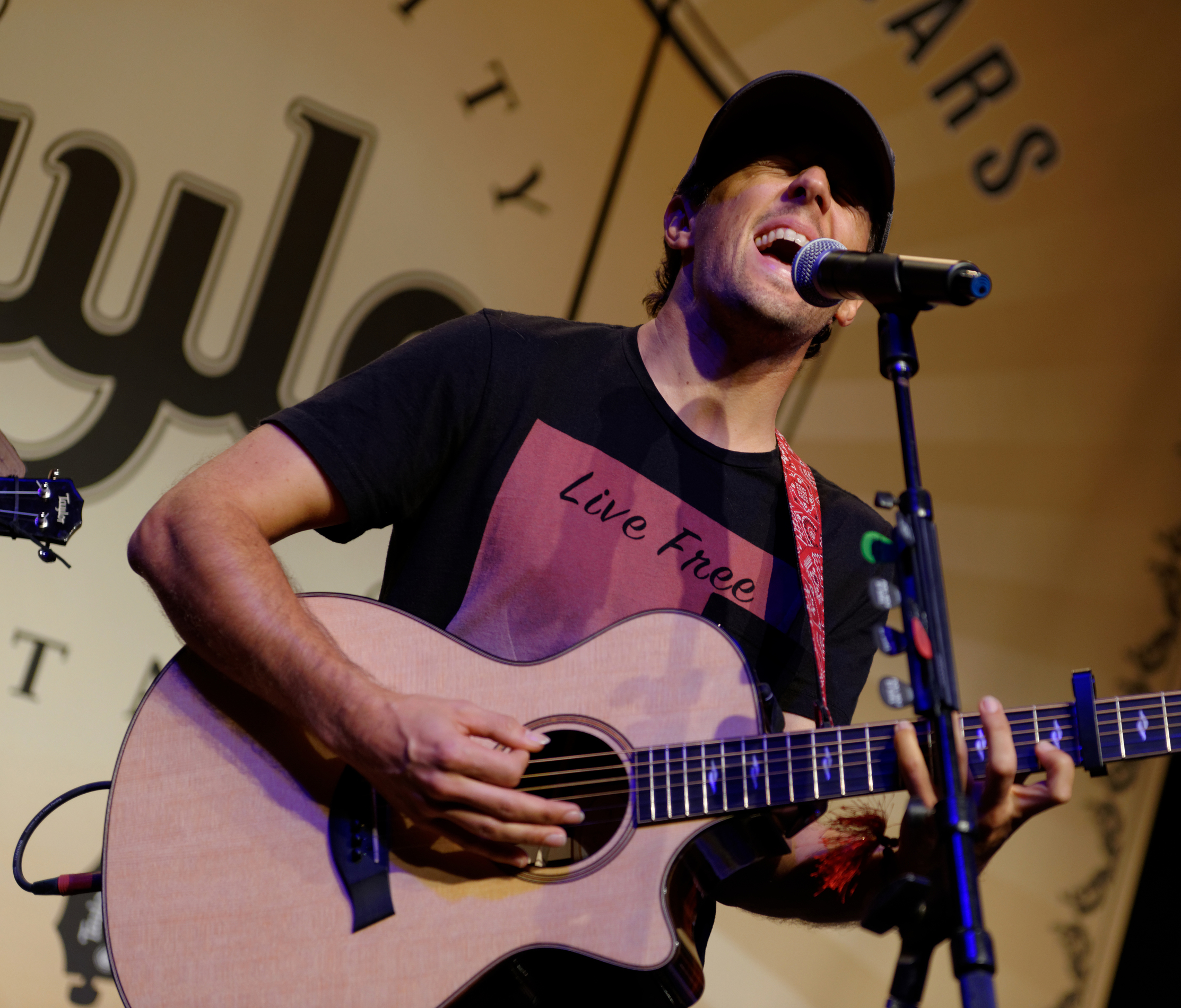 Jason Mraz & Raining Jane (with special guest Andy Powers) performing live at the Taylor Guitars showroom stage. Day 3 (January 25th, 2014) of the Winter NAMM Show in Anaheim California.